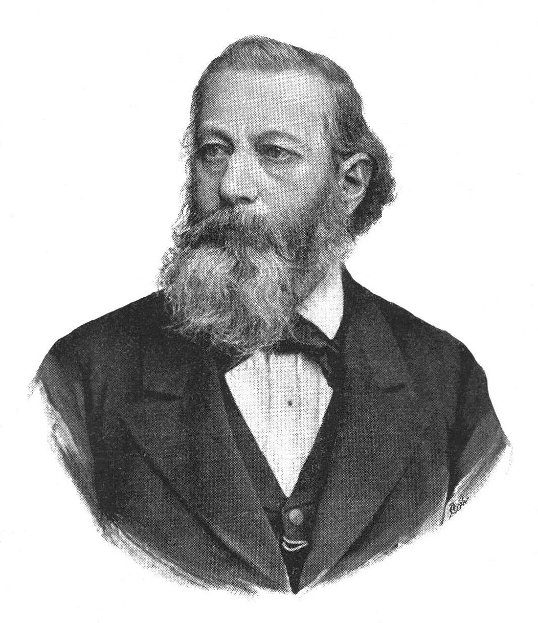 August Köstlin (1824–1894), German-Austrian bridge construction engineer, director of the Forst- Industrie- und Montanbaugesellschaft as well as editor of the Wiener Allgemeine Bauzeitung.